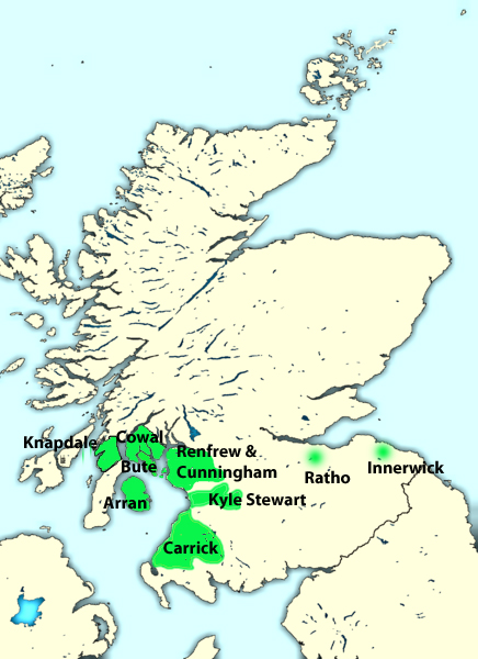 Based on text information in Early Stewart Kings by Stephen Boardman, p. 282 and some information in map in A Companion to Britain in the Later Middle Ages by S. H. Rigby